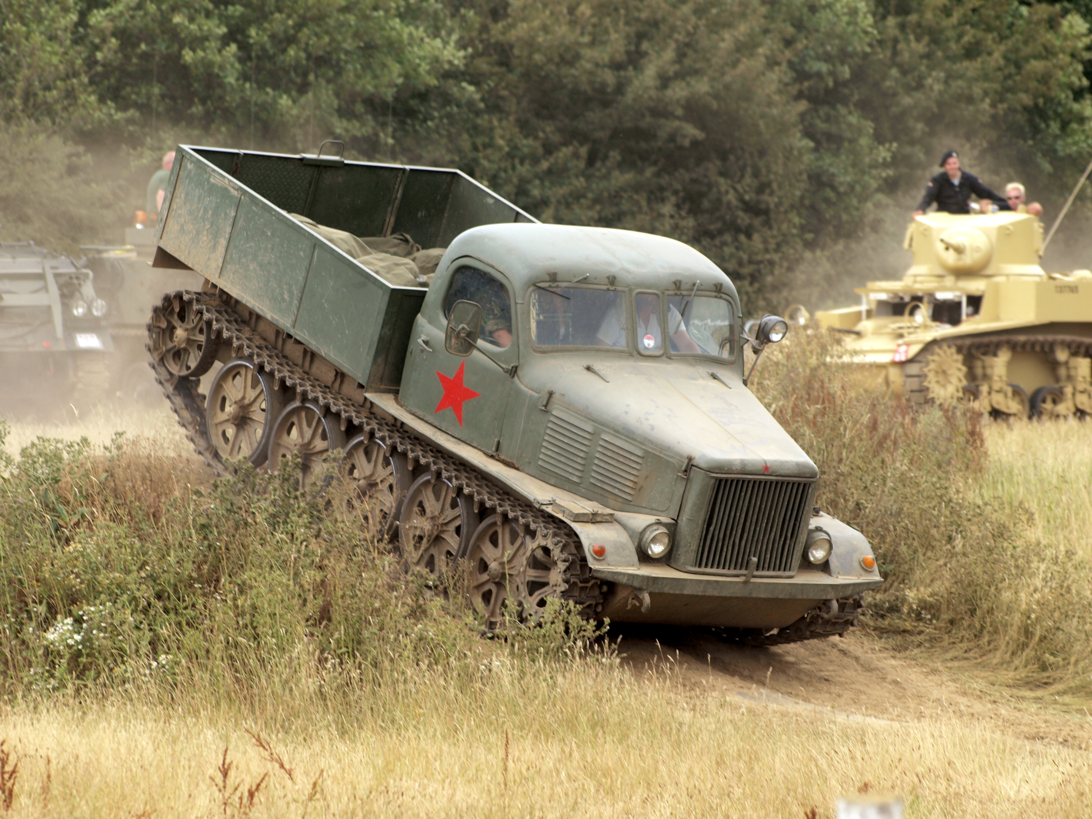 ATLM Gun Tracktor